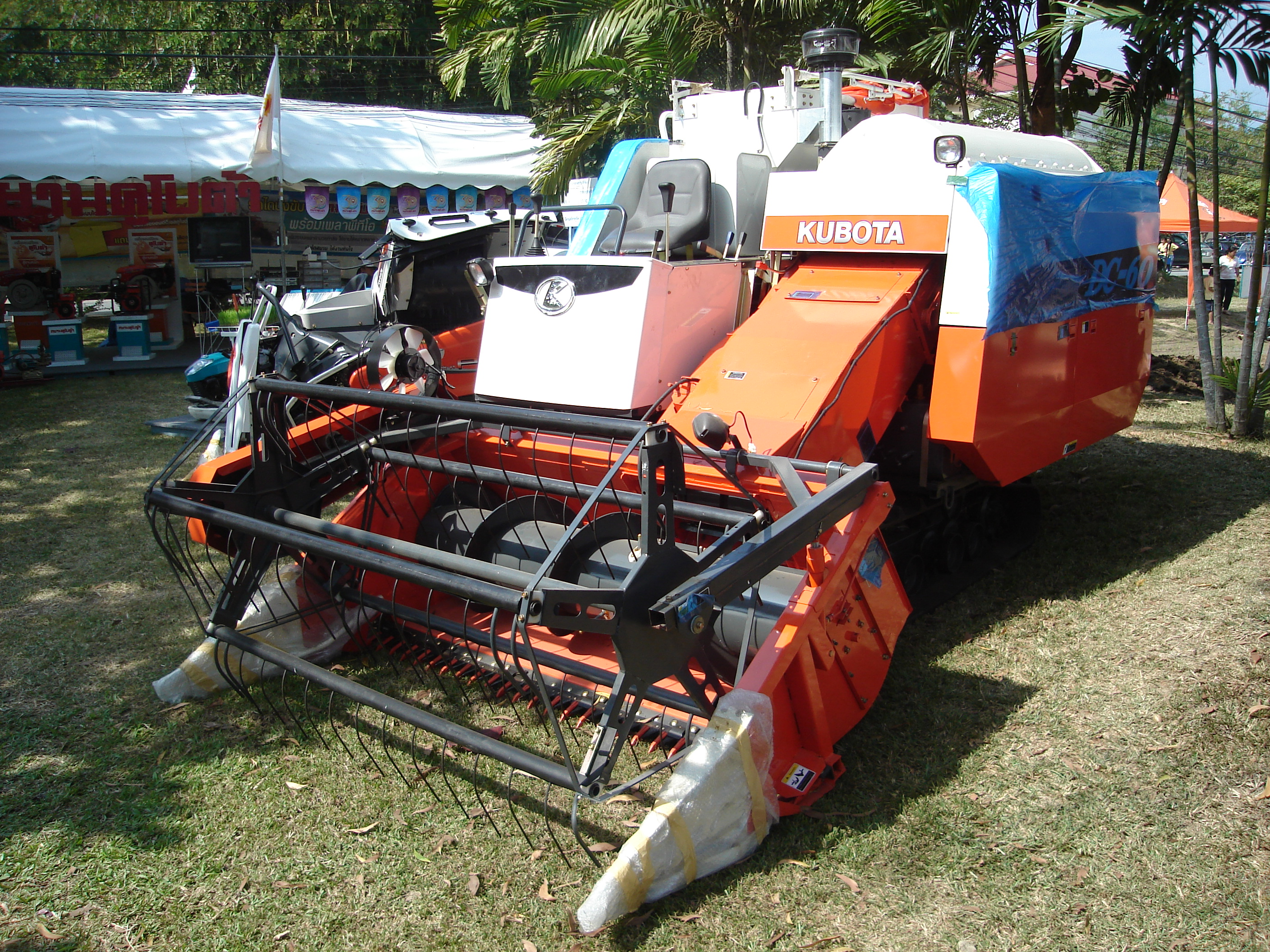 Kubota DC-60 combine harvesters, Chiangmai, Thailand